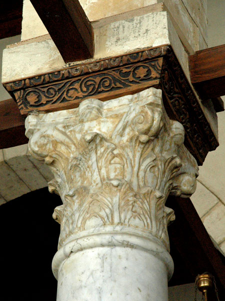 Mosque of Amr. Cairo. Egypt